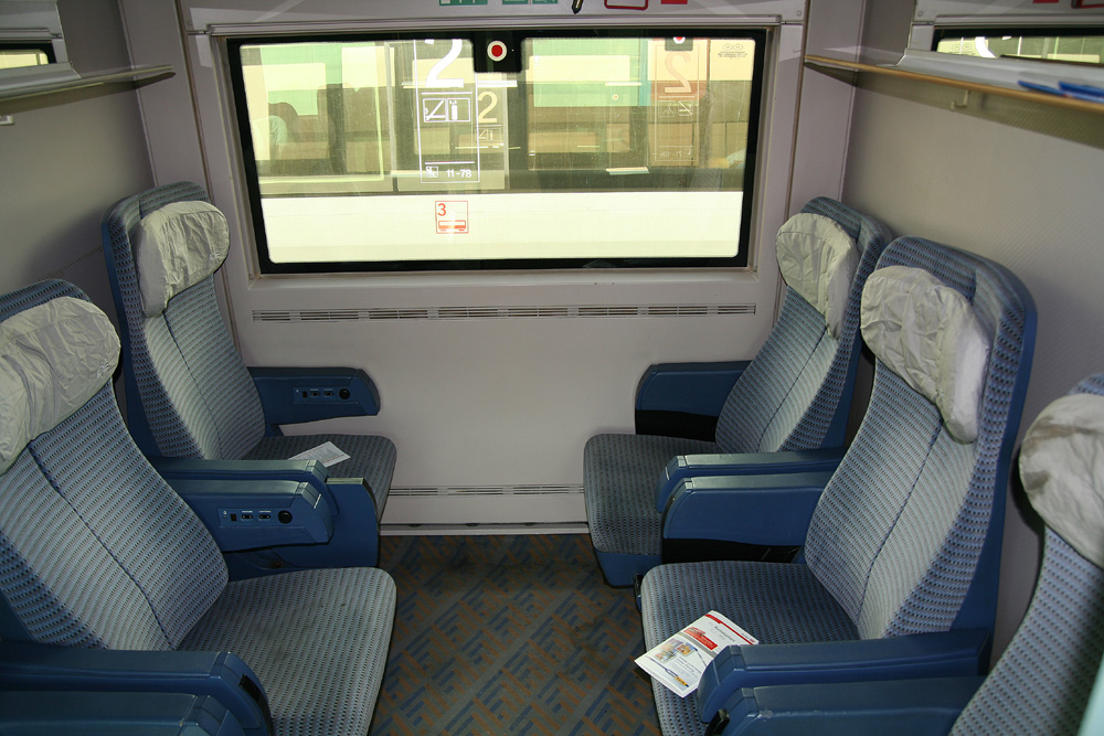 2nd class compartment on an ICE 1 high-speed train (non-refurbished version)